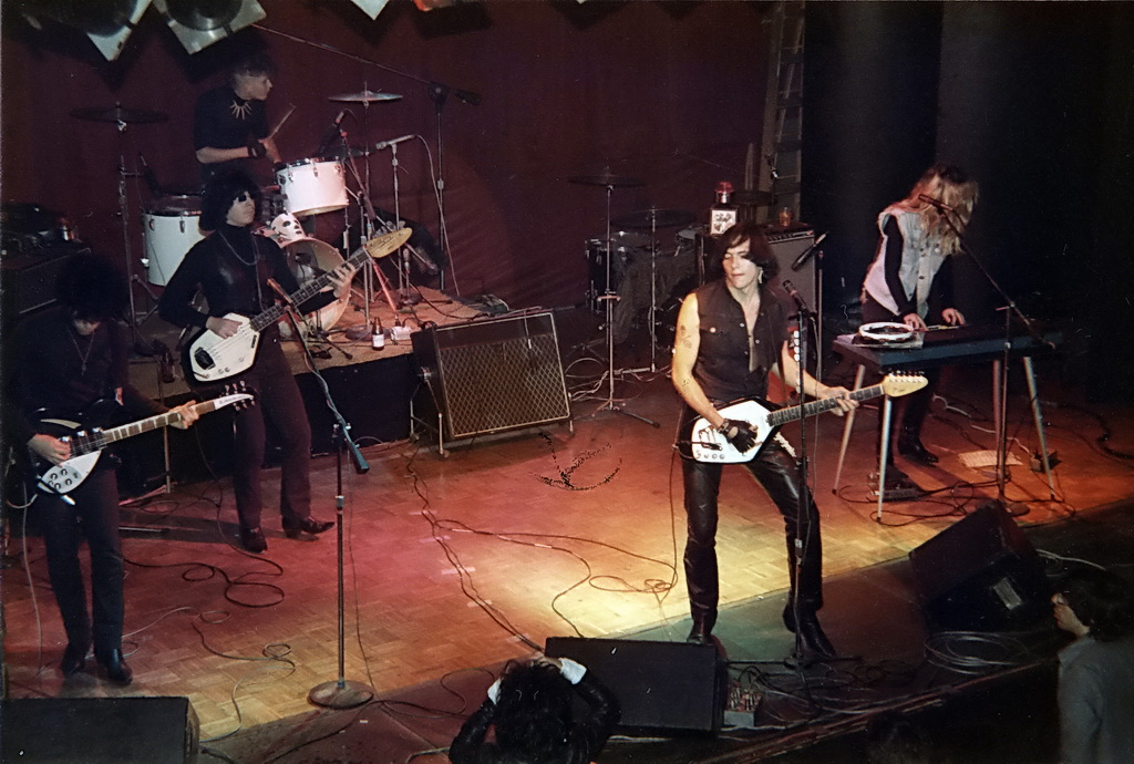 New York's own Fuzztones. L to R: Elan Portnoy (guitar), Michael Jay (bass), Ira (drums and vocals), Rudy Protrudi (guitar and vocals and Deb Onair (vocals and keyboards). After seeing this band numerous times (video and photo) I recall Elan's guitar's sound was simply magnificent. He had spent so much time on getting just the perfect sound that it truly paid off. Photo by Anthony Gliozzo 1984